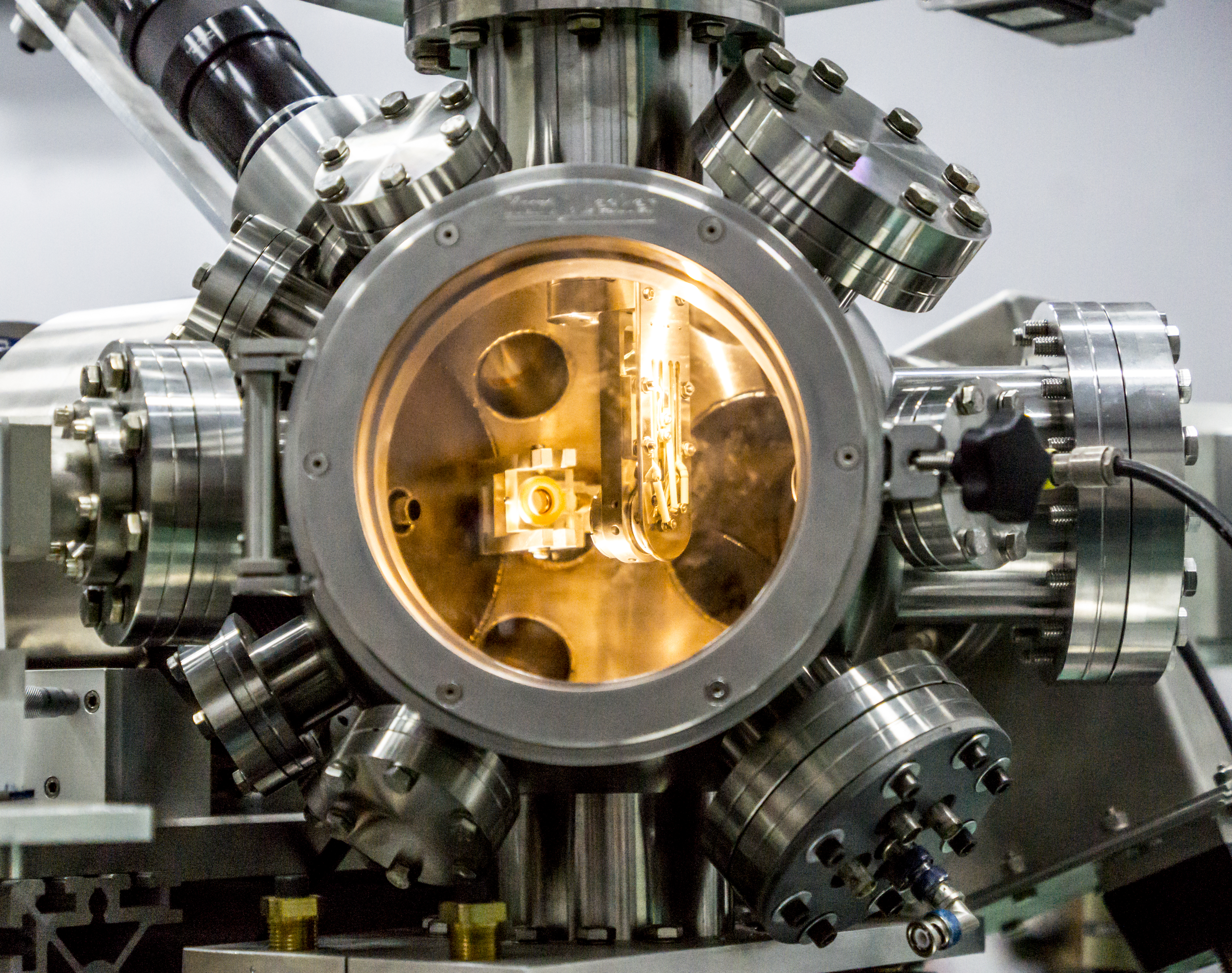 Demokritos Laboratory ion accelerator